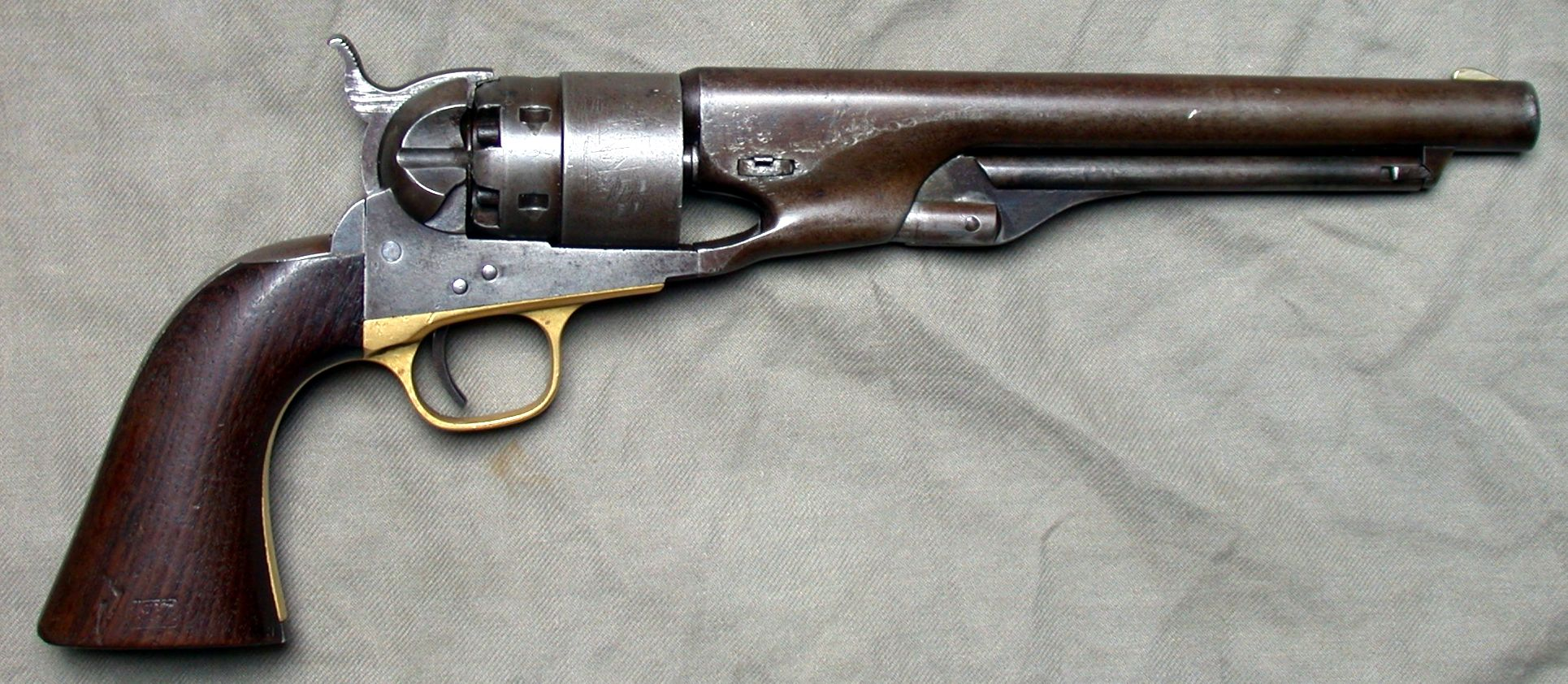 Colt Army Mod 1860, 8 Inch barrel, cal .44, shipped Aug. 20, 1863 to U.S. Government, Governor's Island, NY